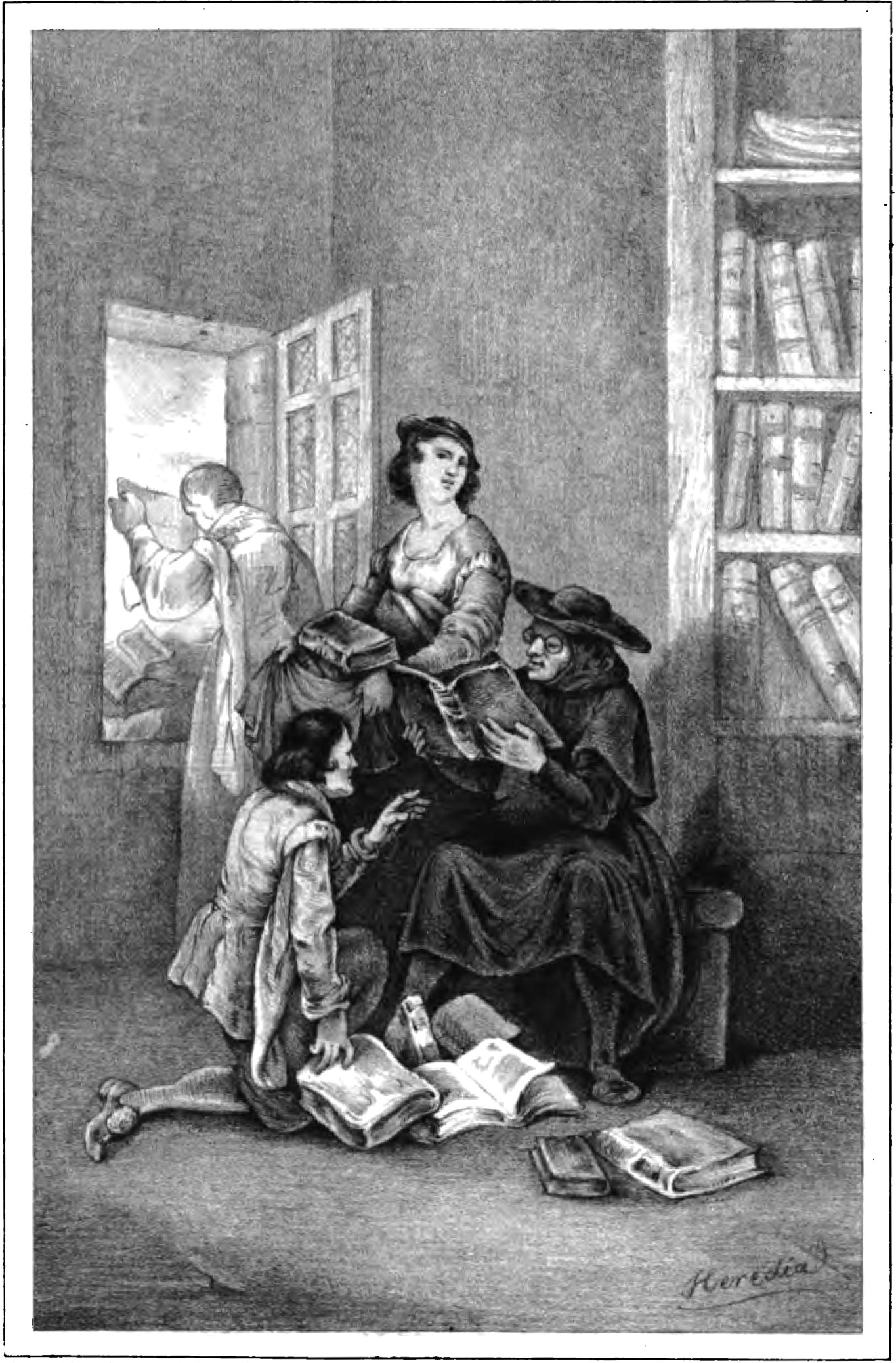 pg 52 of El ingenioso hidalgo Don Quijote del Mancha.